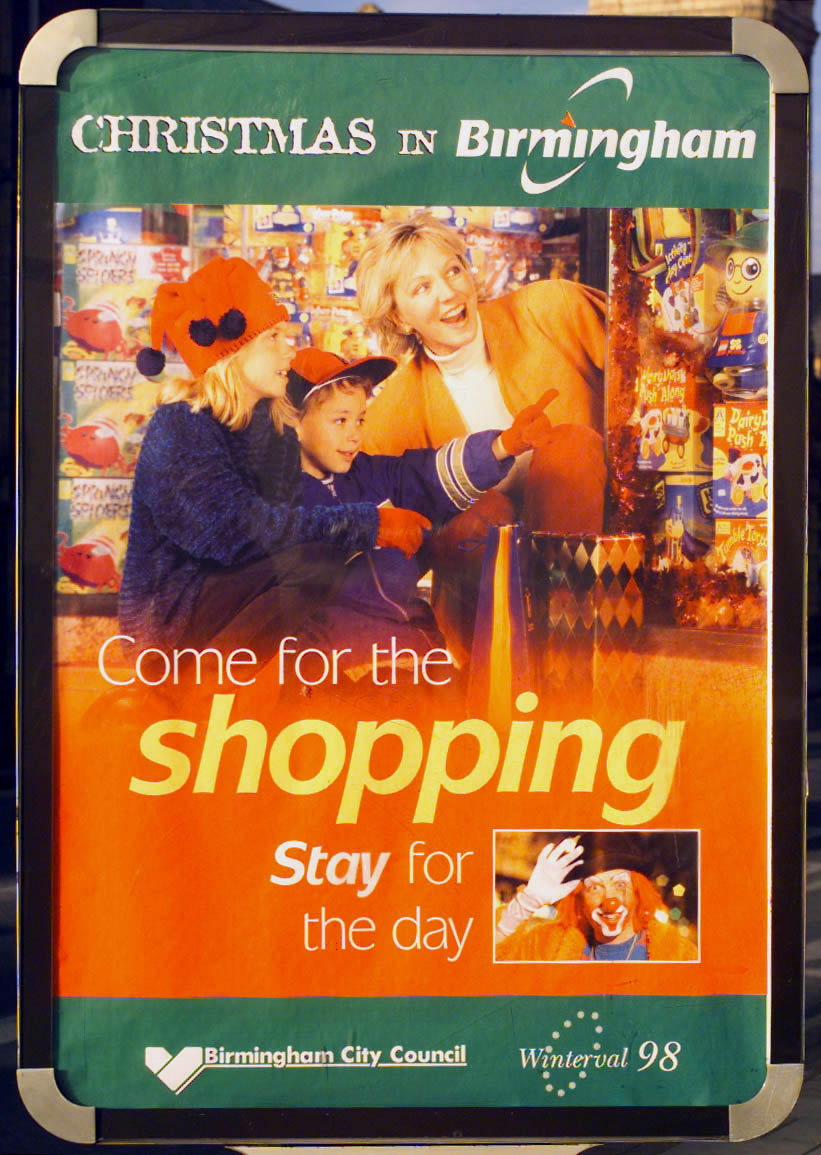 Photograph of a Birmingham City Council poster, advertising Christmas shopping in Birmingham, and featuring a Winterval logo.